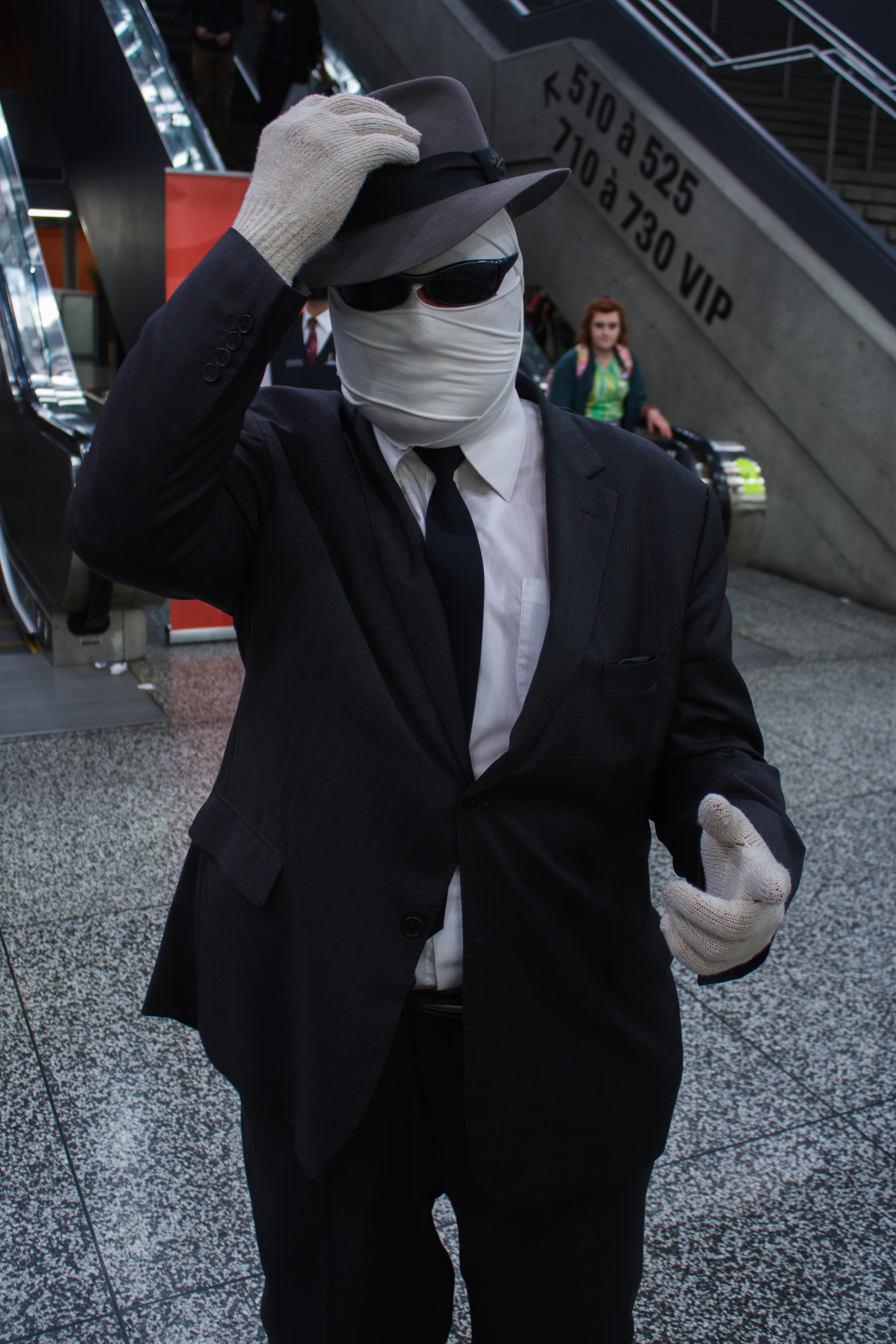 Cosplay on Saturday, day two, of the Montreal Comiccon 2016.